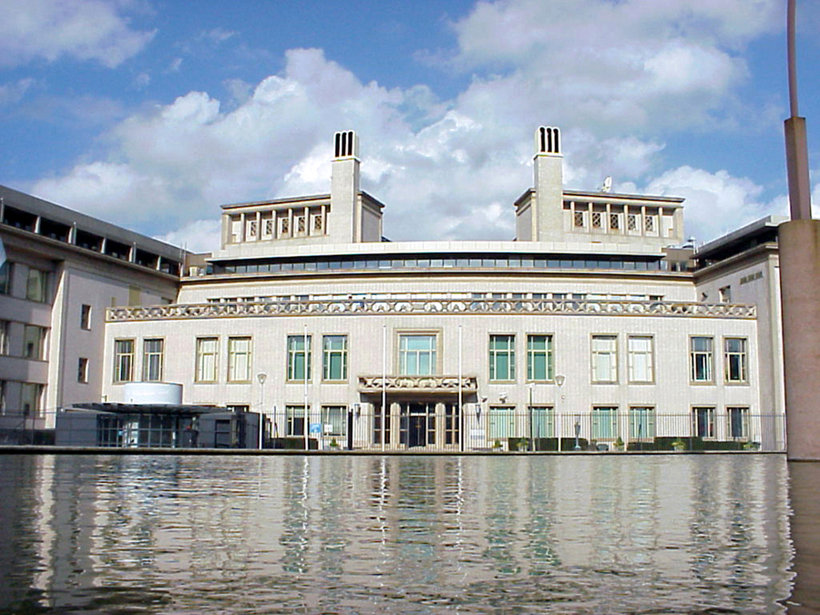 Front view of the International Criminal Tribunal for the Former Yugoslavia, in the Hague, the Netherlands.